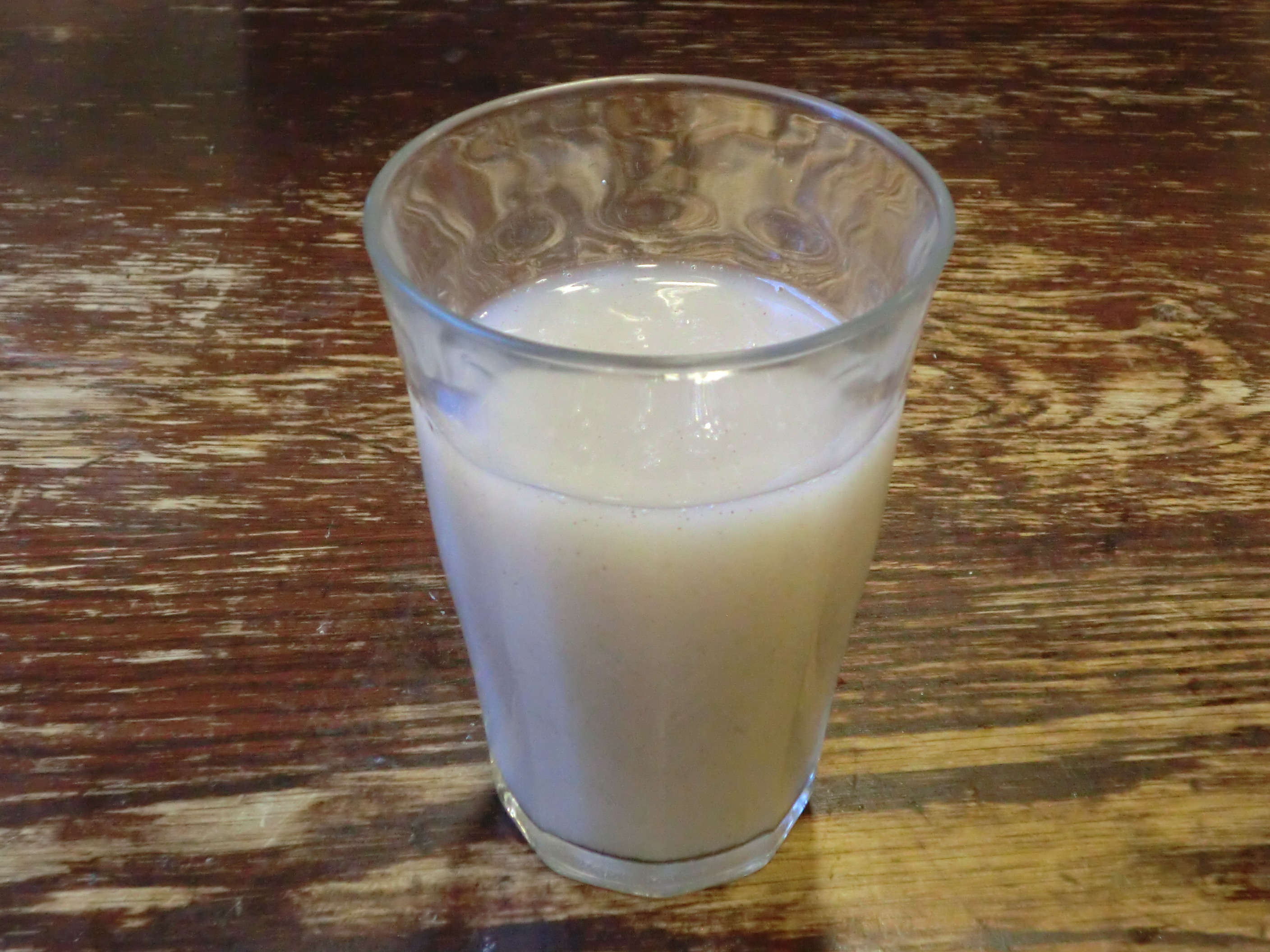 Miki, beverage popular in Okinawa prefecture and Amami island. It made from rice, suger, barley, and others.